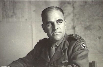 Portrait of Colonel (later Lieutenant General Sir) Henry Wells, General Staff Officer, Grade 1, 9th Australian Division 1941–1943